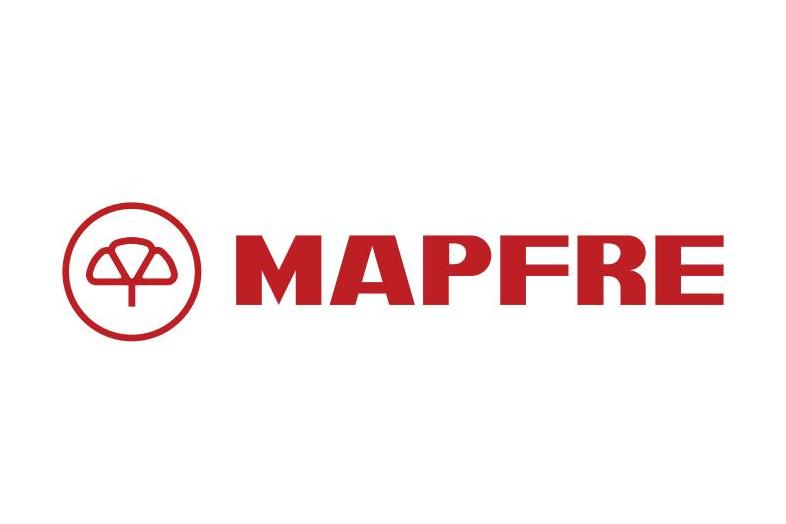 mapfre logotype